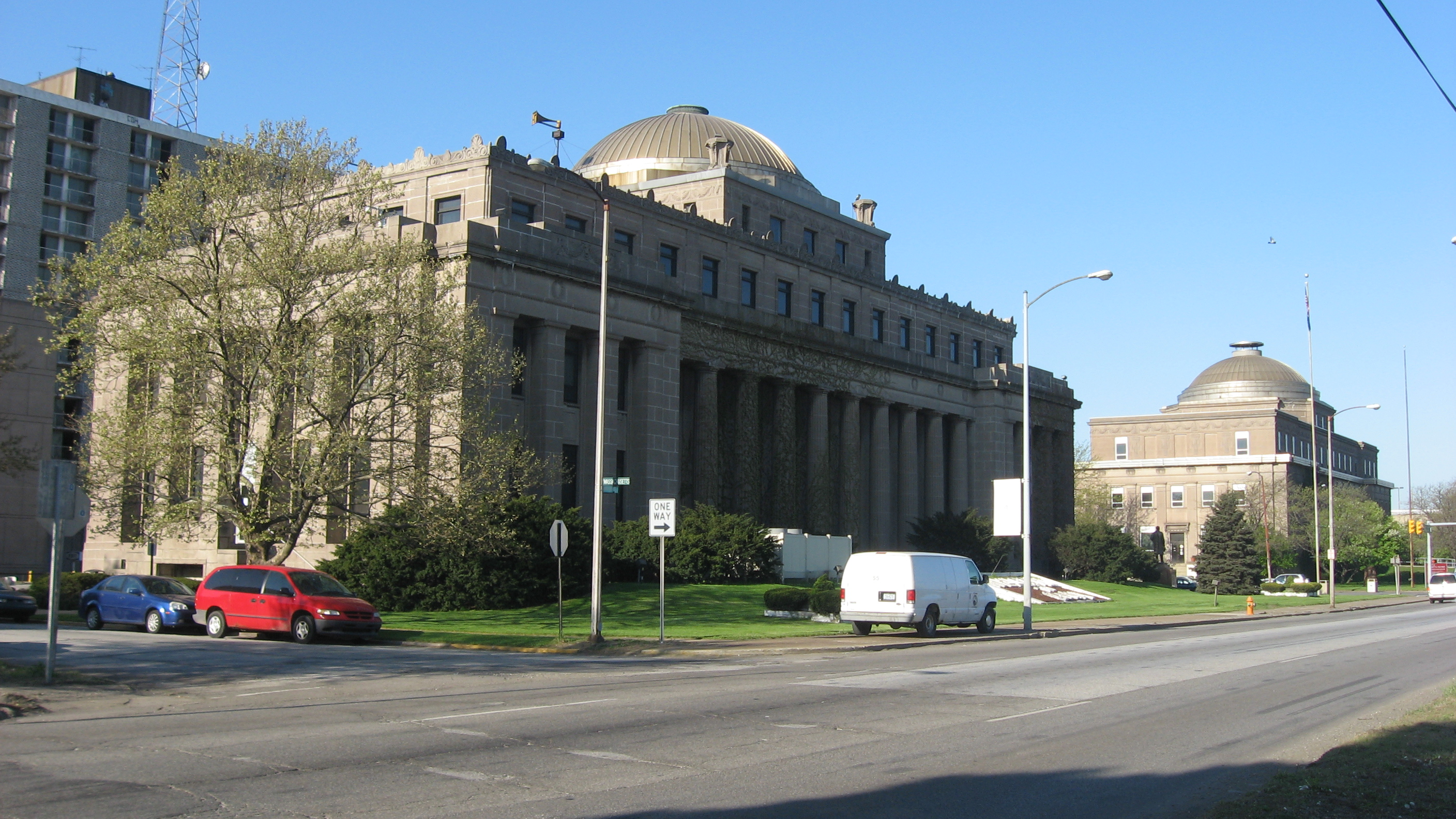 Looking eastward along Fourth Avenue (U.S. Routes 12/20) in downtown Gary, Indiana, United States. In the foreground is City Hall and to its right is the Lake County Superior Courthouse; both buildings were built of concrete in 1927 in the Neoclassical style. Along with the buildings to the south, they are part of the Gary City Center Historic District, a historic district that is listed on the National Register of Historic Places.